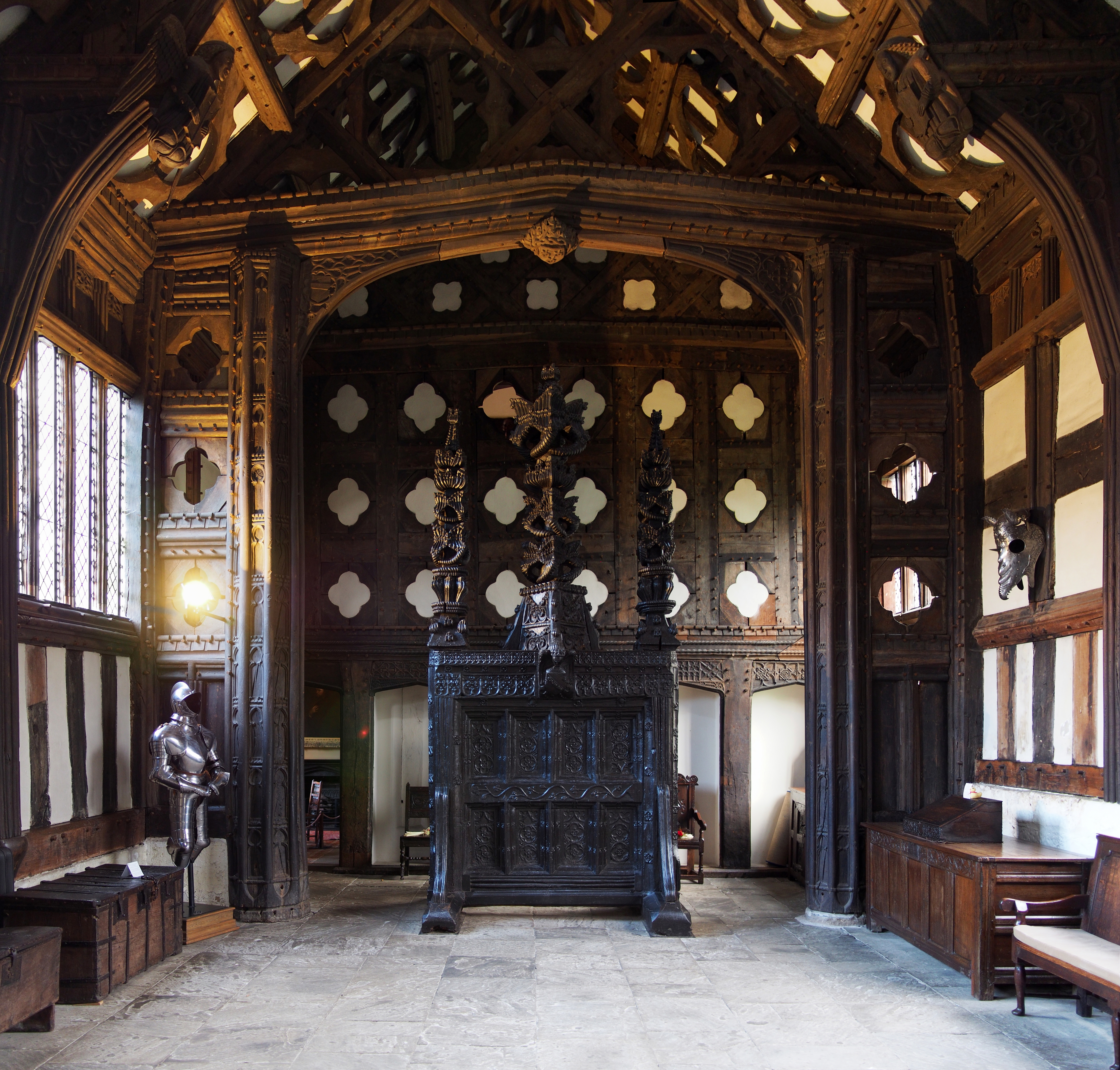 Rufford Old Hall Great Hall, Lancashire, UK